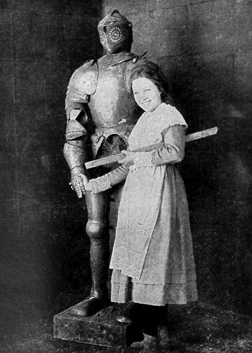 Actress Bessie Love with a suit of armor in the silent film Polly Ann (1917)